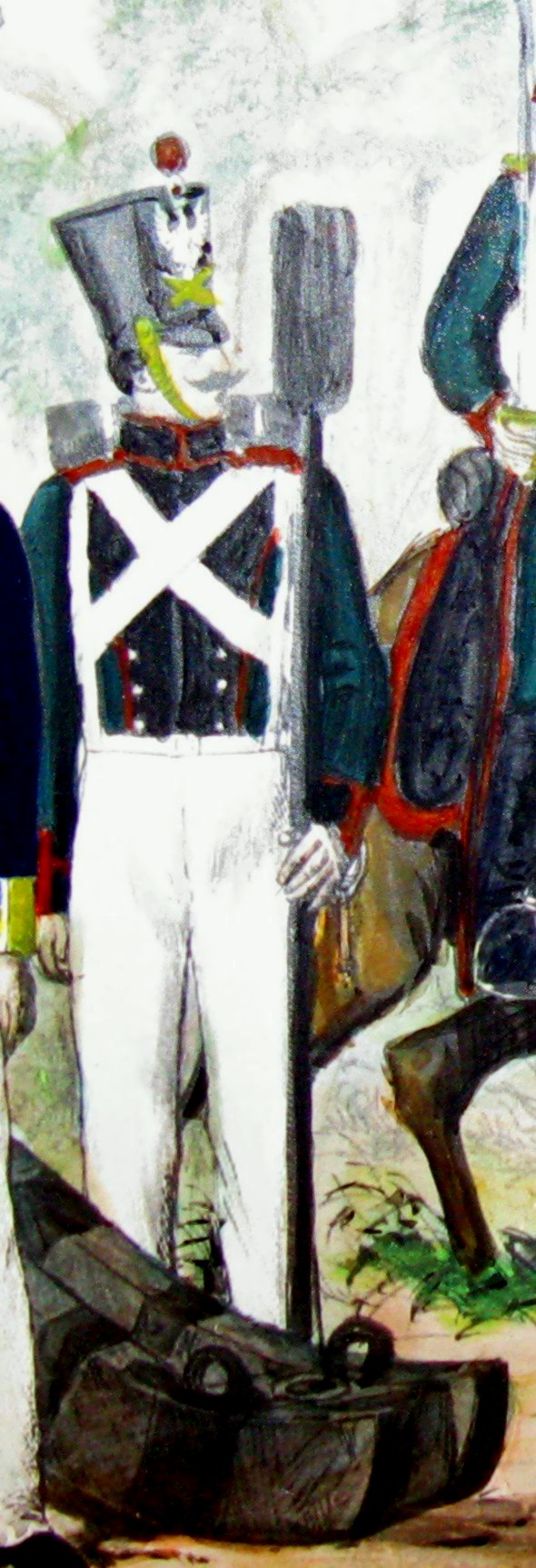 Foot artilery of Polish Army of November Uprising